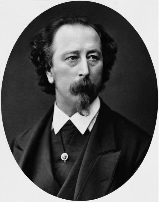 "Auguste de Bourbon" : Augustus Meves (1832-before 1895), son of the pianist Augustus Antoine Cornelius Meves.